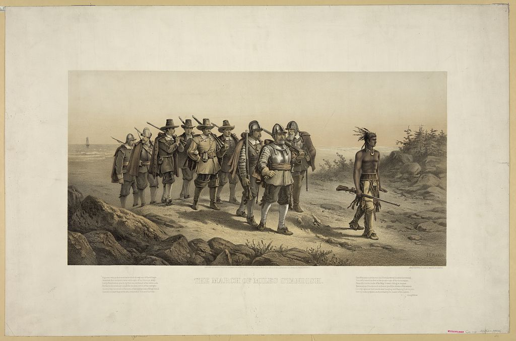 The March of Miles Standish (1623) Date made: 1873 Maker: Armstrong and Company; Baker, Joseph E. Place: Boston, Massachusetts Description: Colored print of nine white men led by an American Indian down a path away from the ocean where a ship is anchored. Two stanzas from Longfellow's, "The Courtship of Miles Standish" appear beneath the image on each side of the title.